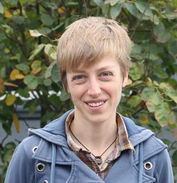 Picture of Emily Riehl